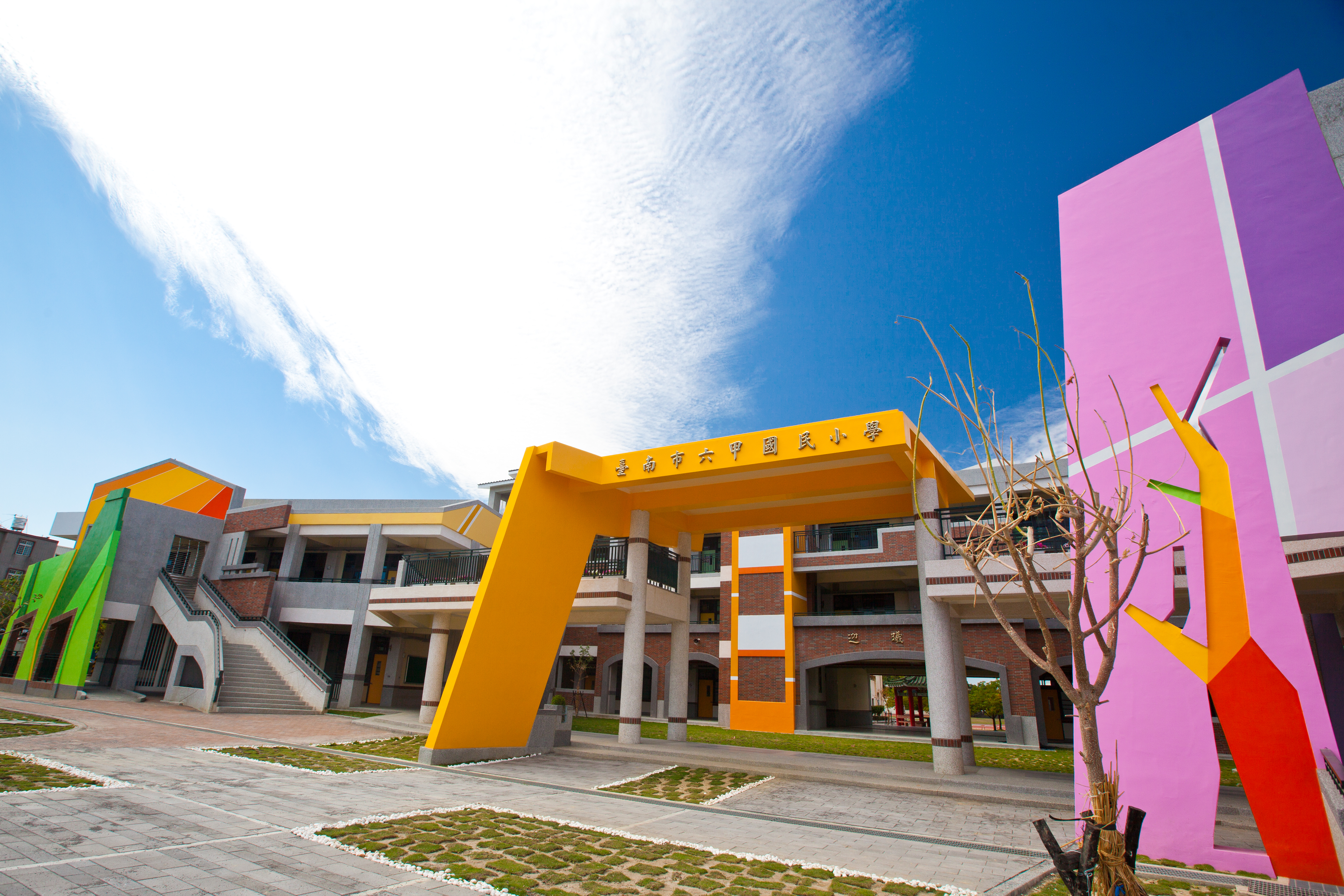 Tainan Municipal Liujia District Liujia Elementary School.